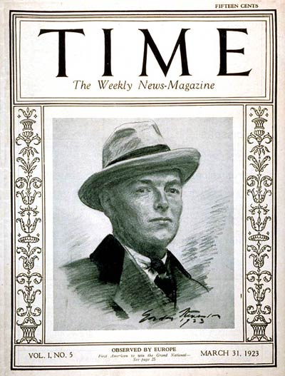 TIME Magazine Cover Featuring Stephen Sanford (31 Mar 1923)